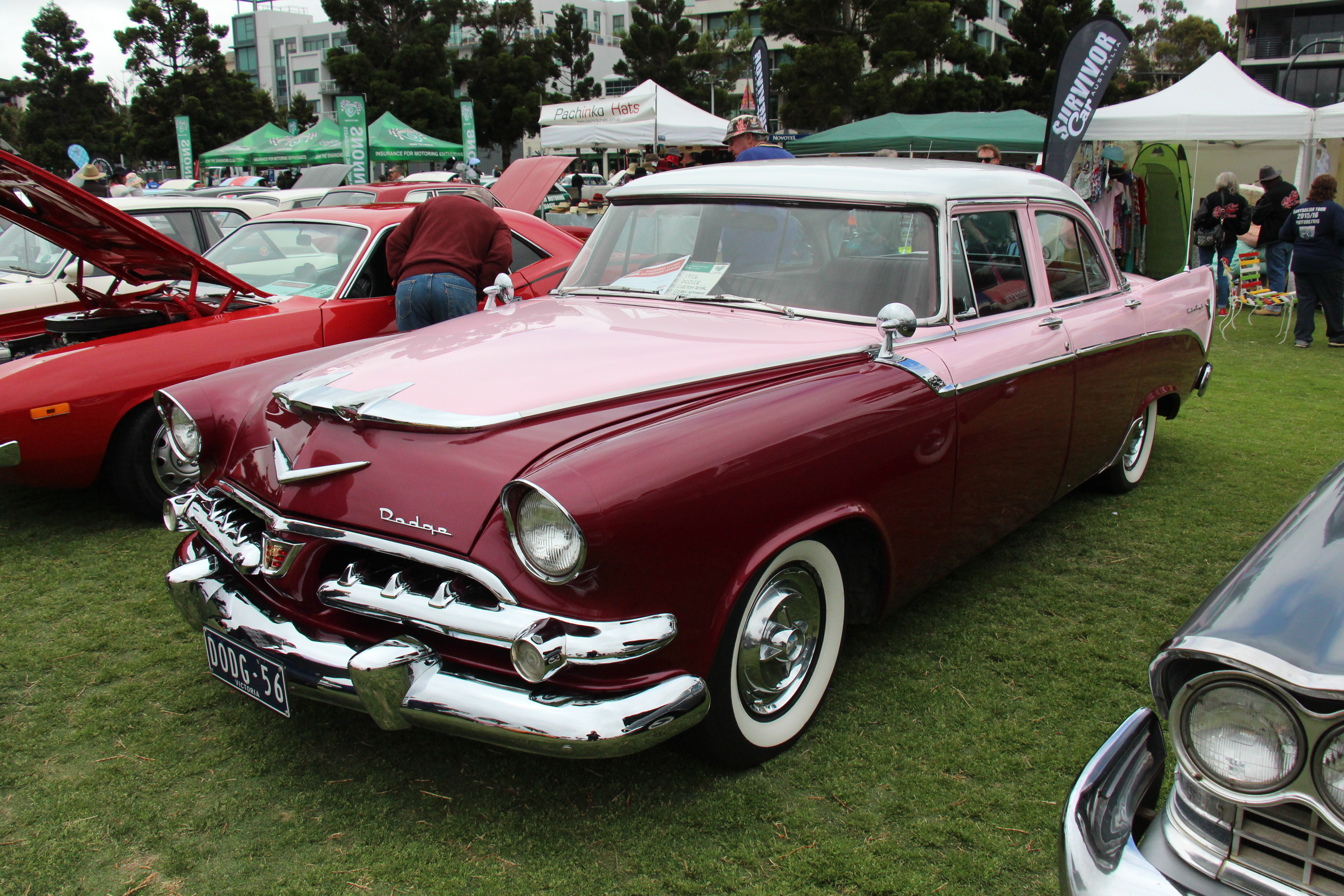 In 1928, Chrysler acquired Fargo Trucks and Dodge Brothers and also established Plymouth and DeSoto brands. Plymouth was Chryslers lowest priced car, Dodge was next, then Desoto and Chrysler was top of the line. For 1955 the Wayfarer and Meadowlark were dropped, the Coronet, introduced in 1949, was now the base level Dodge (available in 2 and 4 door Sedan and Coronet Lancer 2 door Hardtop, the base wagon was the 2 and 4 door Suburban) Mid spec was the Royal (available in 4 door Sedan and Lancer 2 door Hardtop, mid spec wagon, the 4 door Sierra) Top model was the Custom Royal. (4 door Sedan and Lancer 2 door Hardtop and Convertible). Upmarket Wagons were the Sierra Royal. The La Femme was a special package for women, they came in Heather Rose and Sapphire White and floral tapestry-like fabrics. 1955 and 1956 models were nearly identical, but a more pronounced fin at the back on the 56 Engines; 230 cu in 6 or 270 cu in Red Ram V8, (all Royals and Custom Royals were V8s) the sporty 1956 D500 model got the 315 cu in V8, upgraded suspension and brakes.